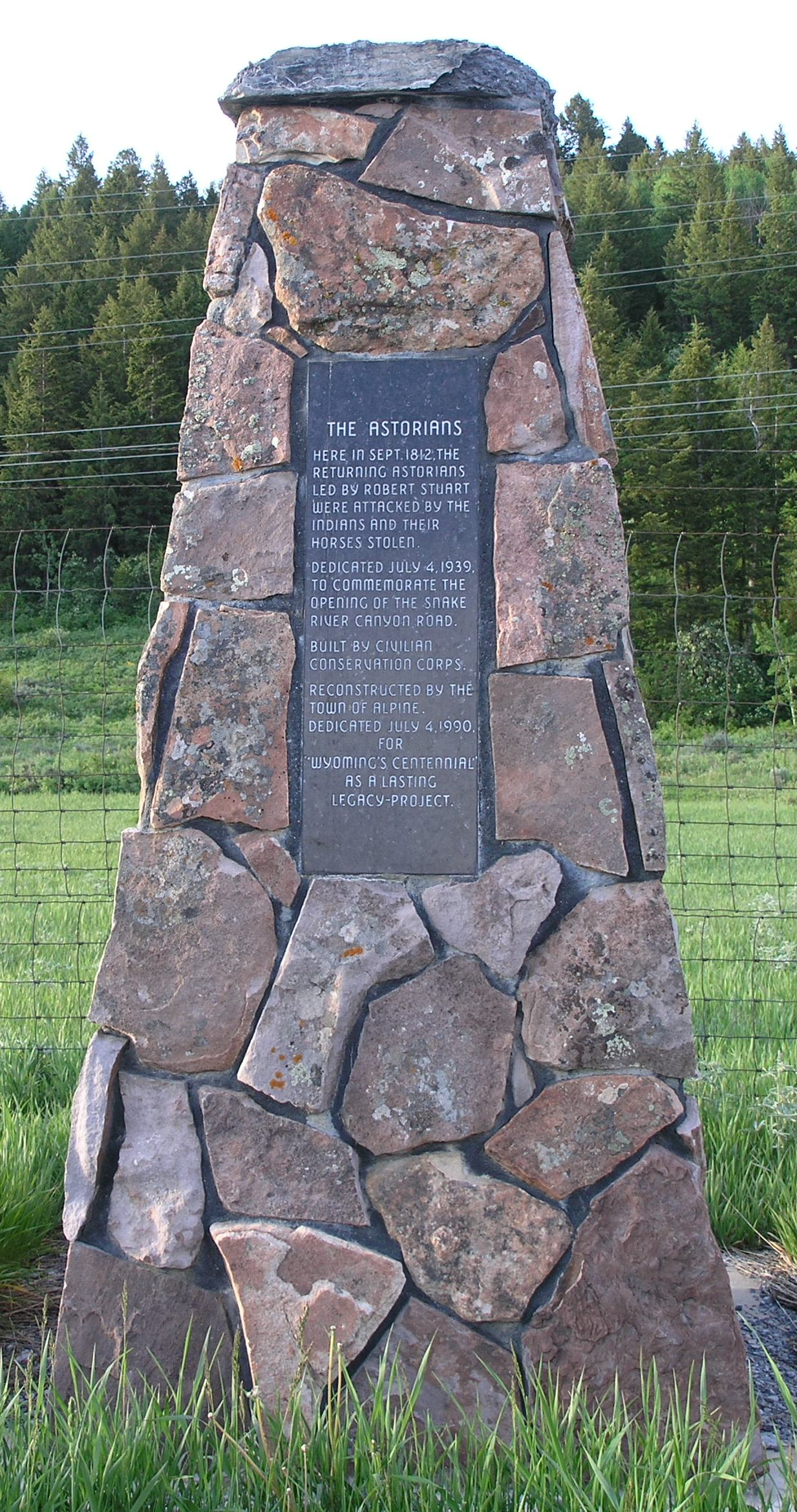 Photo in or around Grand Teton National Park